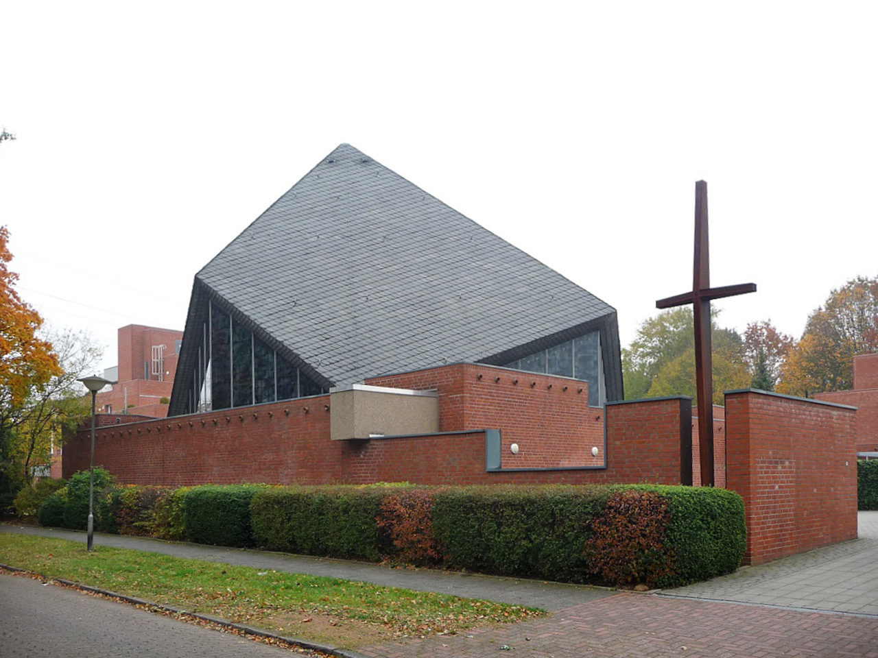 kath. church St. Brigitta in Marßel/Burgdamm in Bremen-Burglesum